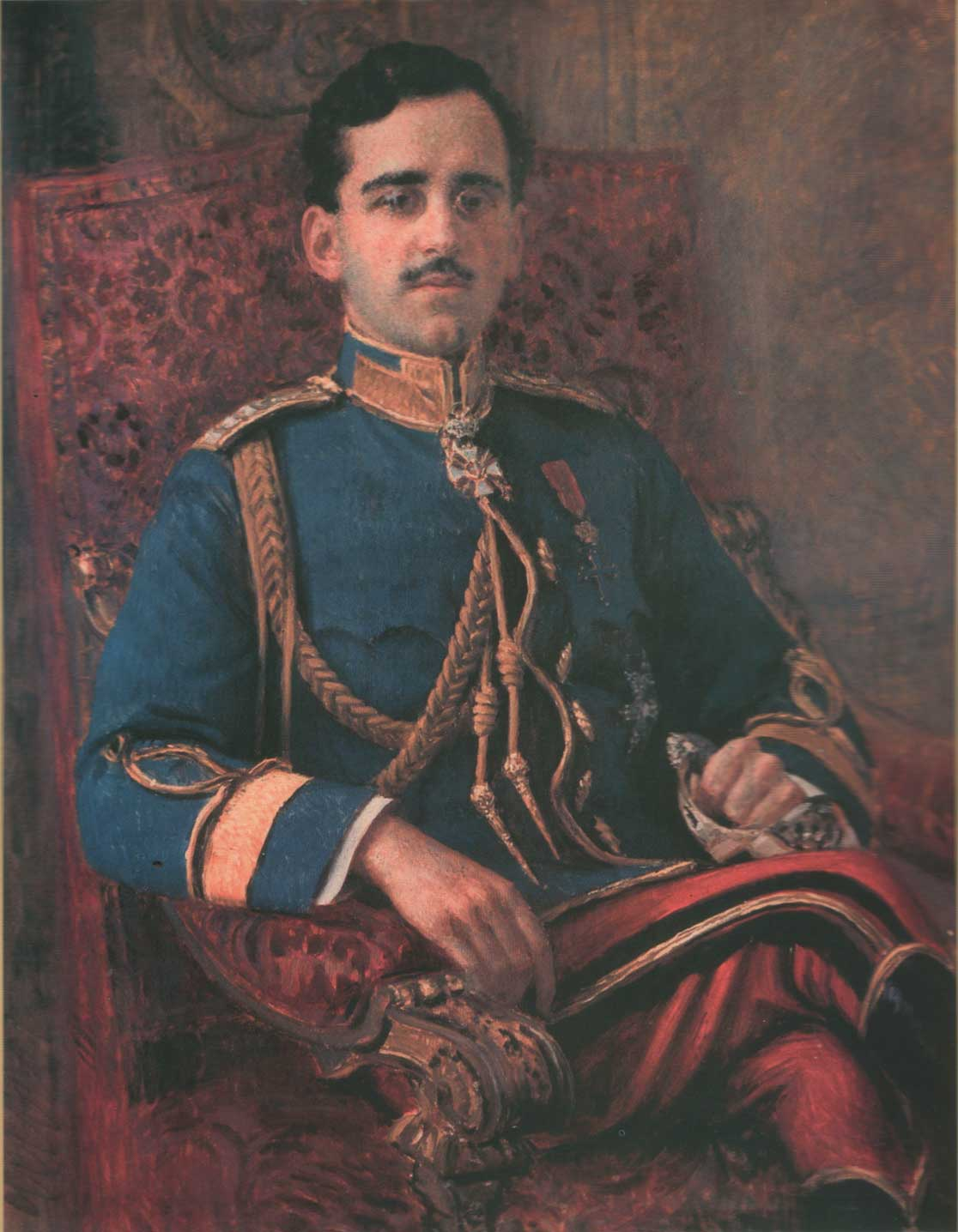 Alexander I (Karadjordjević) of Serbia and Yugoslavia (1888-1934)